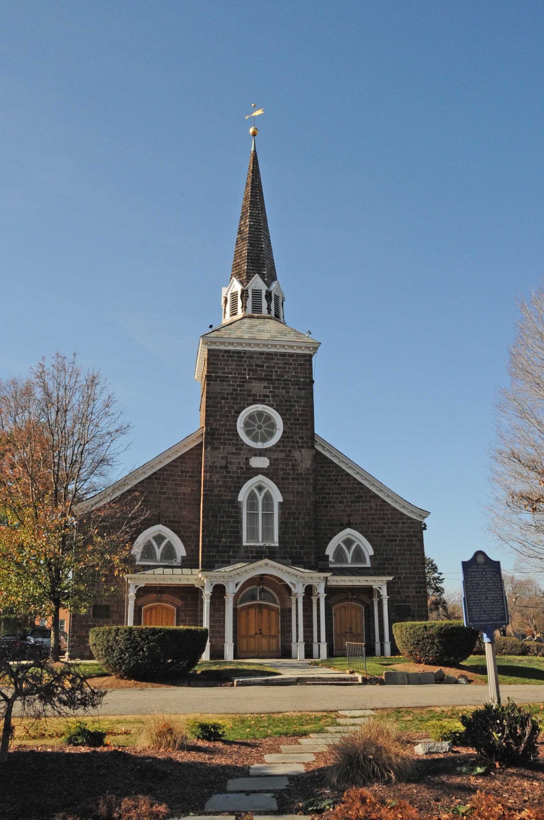 PRESENT CHURCH MODELED AFTER DUTCH COLONIAL ARCHITECTURE WAS COMPLETED IN 1800. PREVIOUS CHURCH ON THIS SITE WAS WASHINGTON’S HEADQUARTERS IN 1778 AND 1780. CHURCH WAS USED AS A BARRACKS, HOSPITAL, AND PRISON